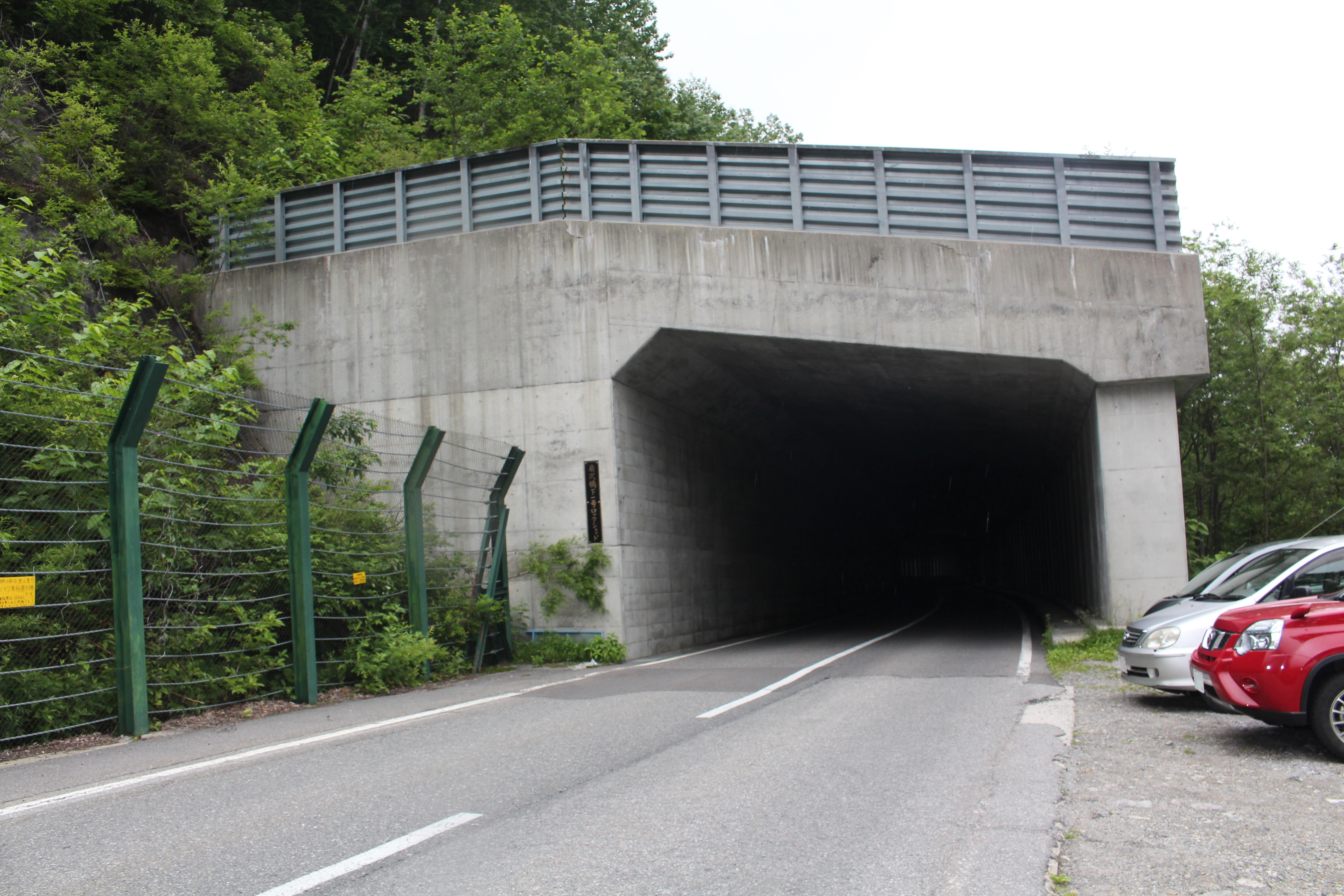 Rock shed of Nagano Prefectural Road Route 45, Ōmachi, Nagano prefecture, Japan.